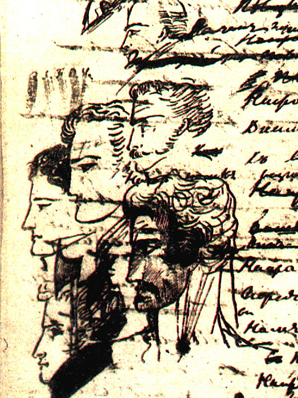 Drawing by Pushkin (Kazarsky, Silvo, Fournier, Dahl, Zaitsevsky)